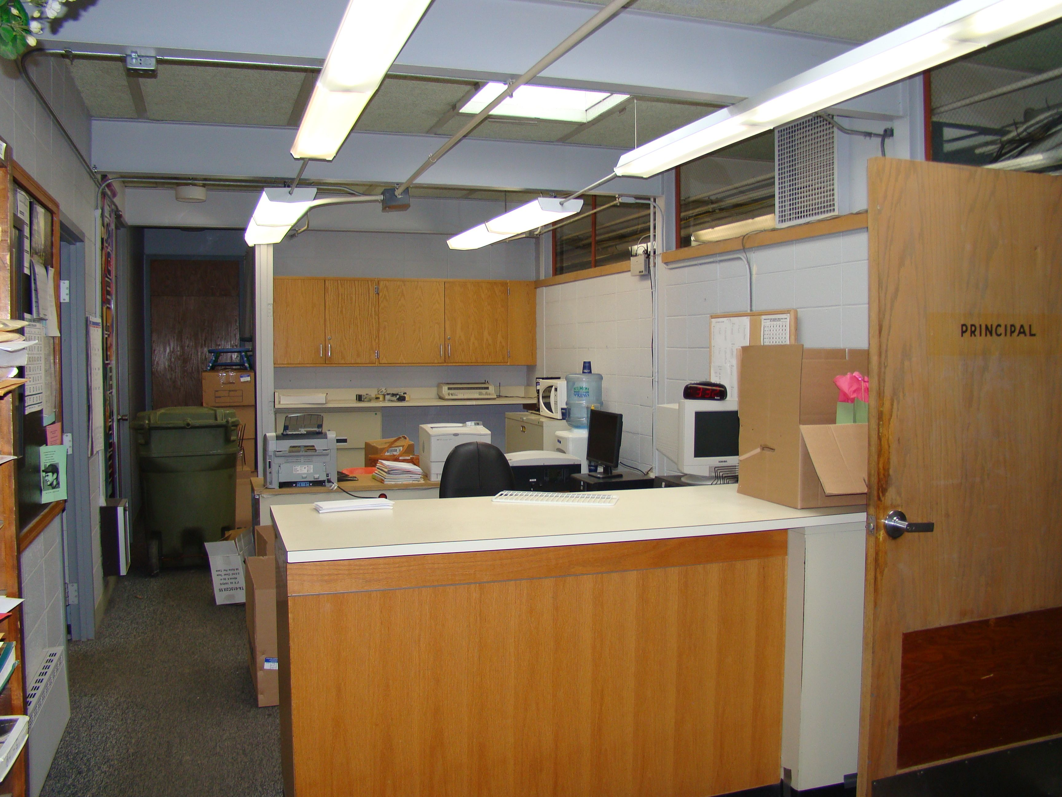 Old MERHS Main Office